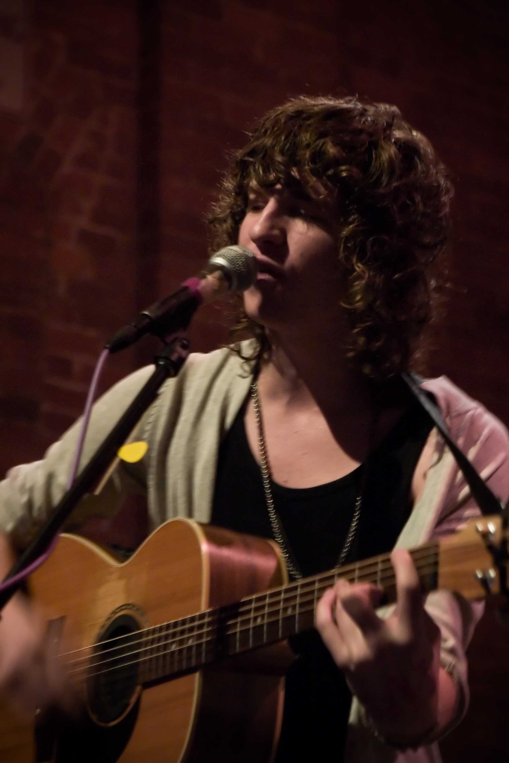 May 8, 2007 - Columbus, OH - The Kooks, a British Indie Rock band perform several songs in the CD101 studios for a small crowd while on their U.S. tour. Photo is of guitarist and lead vocalist, Luke Pritchard.